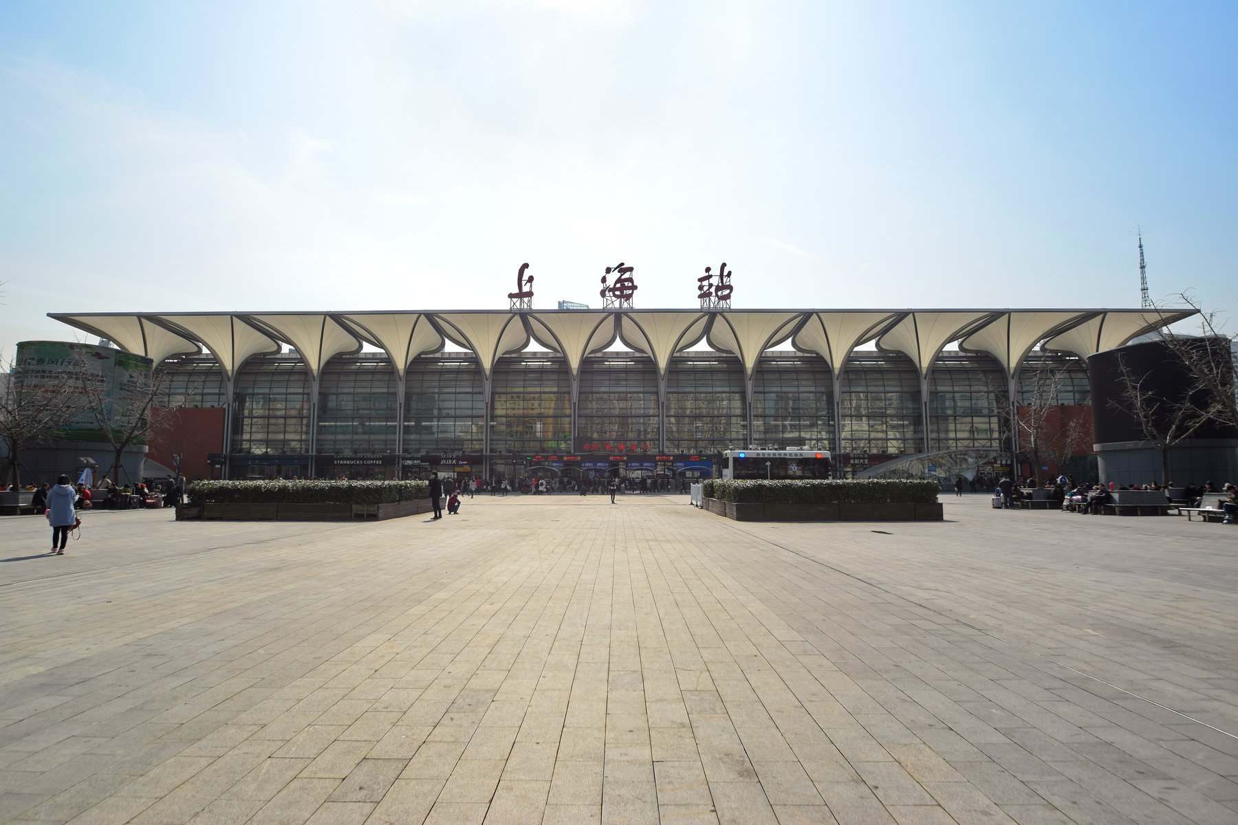 North Square of Shanghai Railway Station